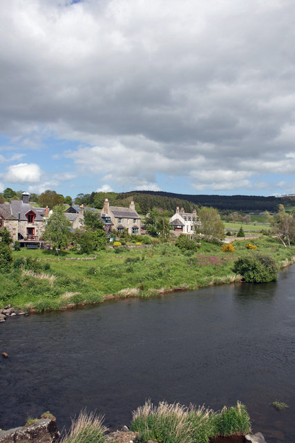 Milltown of Rothiemay, the River Deveron in the foreground, Aberdeenshire